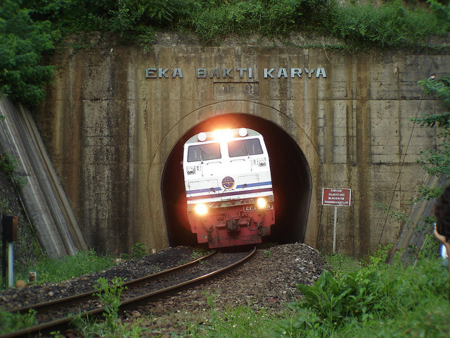 Last made of Indonesian railway tunnel, located in Karangkates